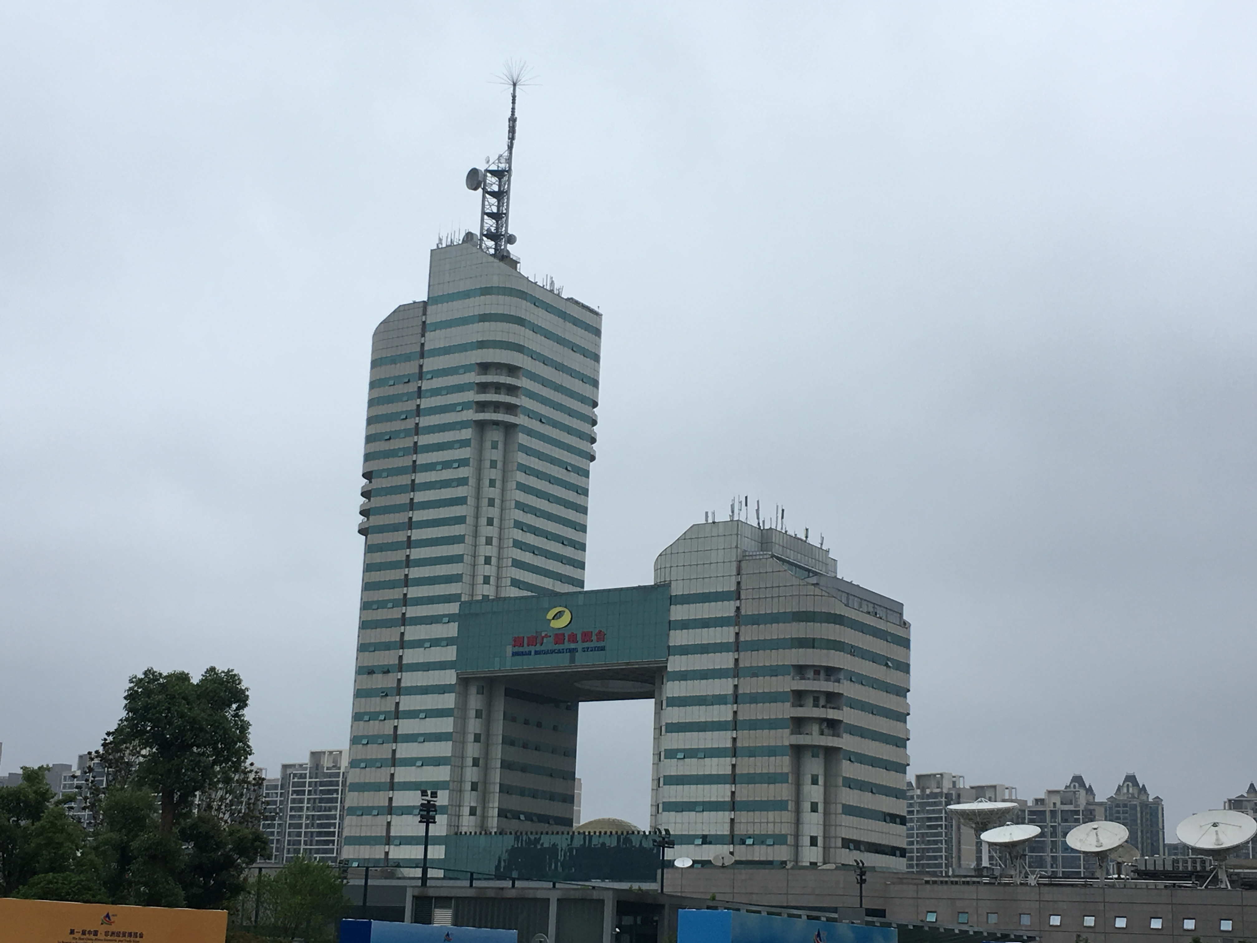 The Hunan Broadcasting System Building in downtown Changsha, Hunan, China, on 29 June 2019.